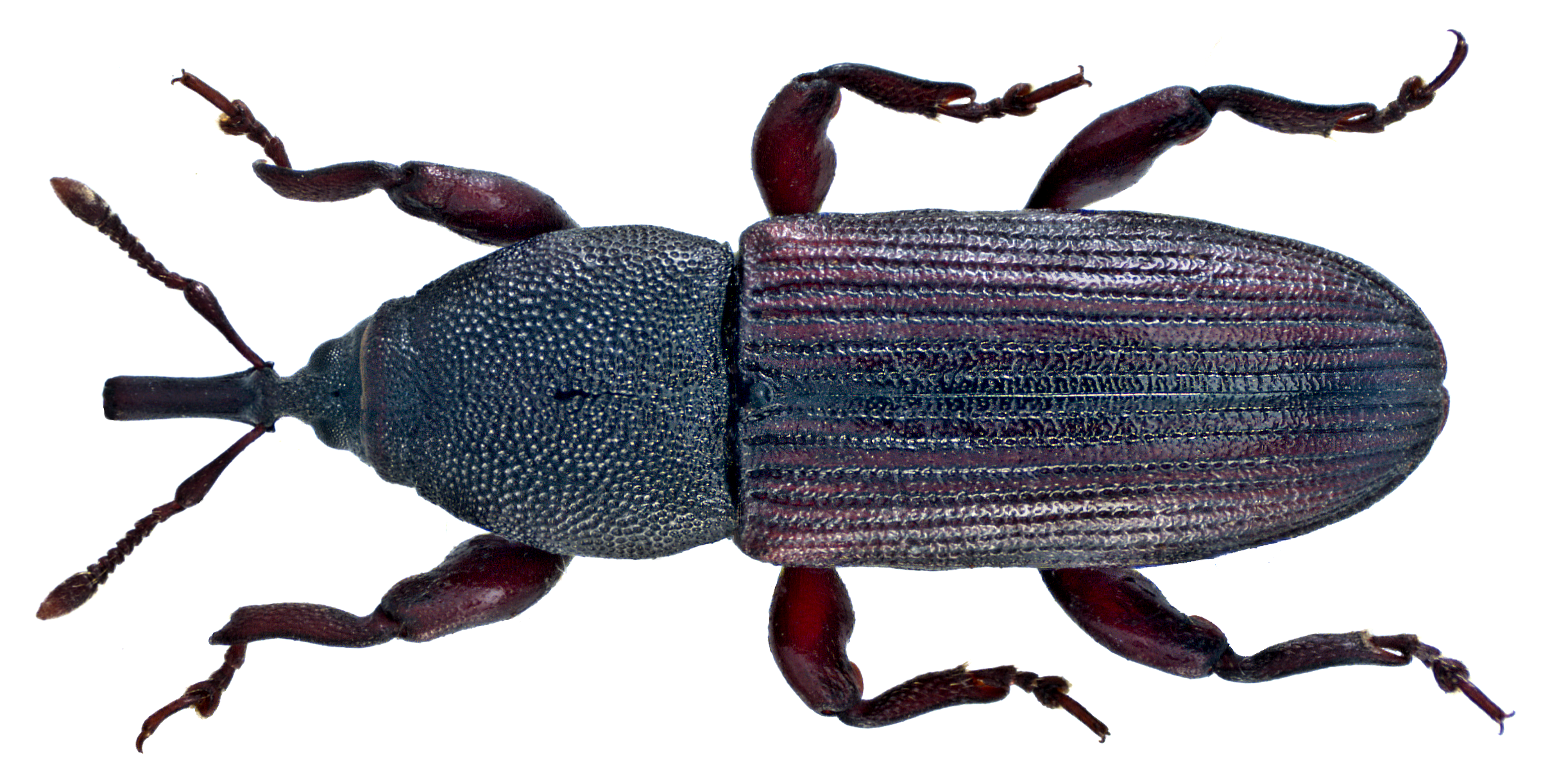 Family: Curculionidae Size: 8,7 mm (5,0 to 9,0 mm) Distribution: West Europe, England Ecology: lives on Ilex aquifolium Location: Ireland, Killarney Data under mount, P.Harwood coll., Pres. 1957 by Mrs. P.Harwood, 5-1958 Coll. Oxford University Museum of Natural History Photo: U.Schmidt, 2014